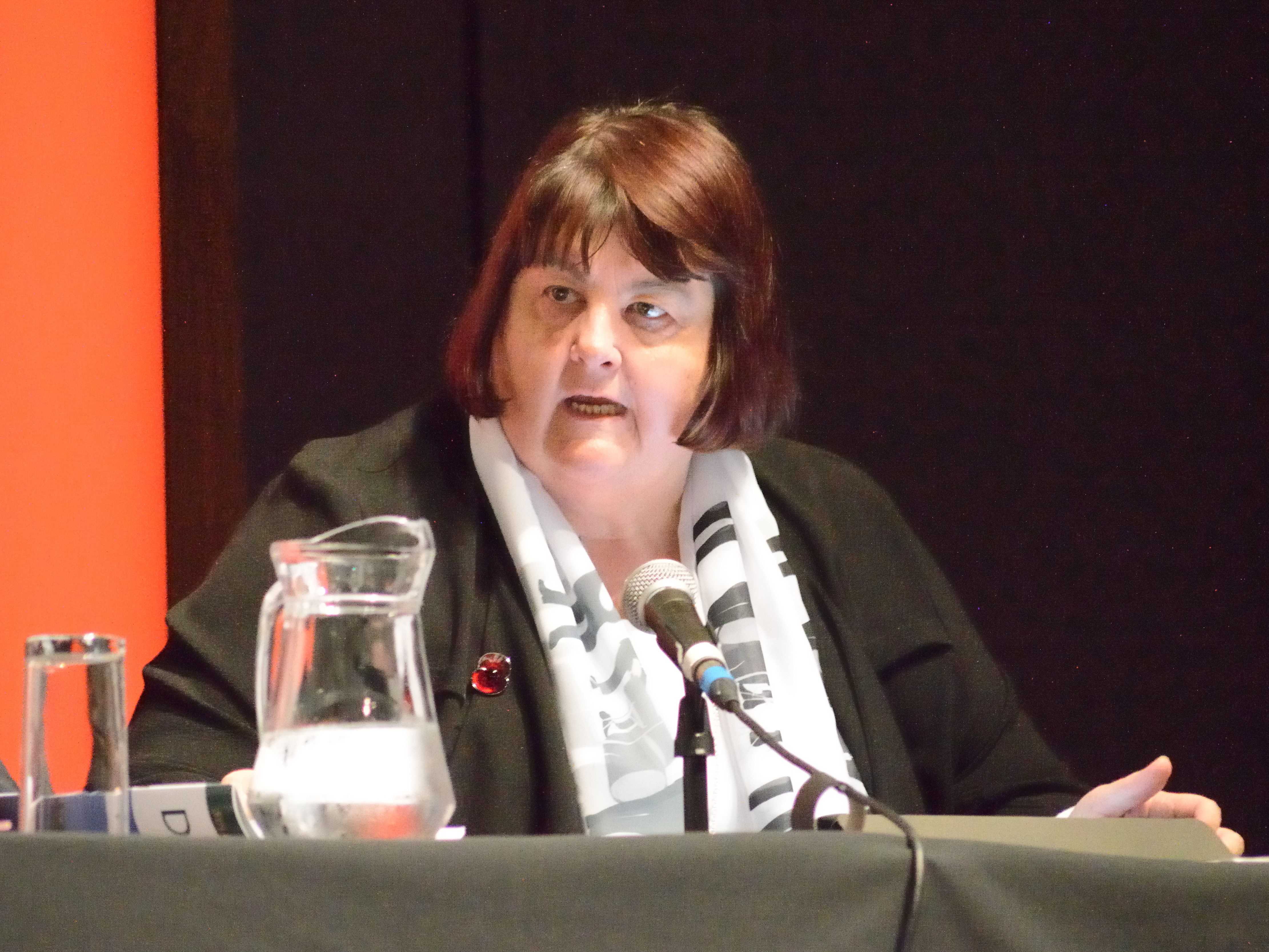 Councillor Debbie Wilcox, Leader of Newport City Council and the Welsh Local Government Association, speaking at the ResPublica Tomorrow's Democracy day conference at The Riverfront, Newport, on 5 November 2018.